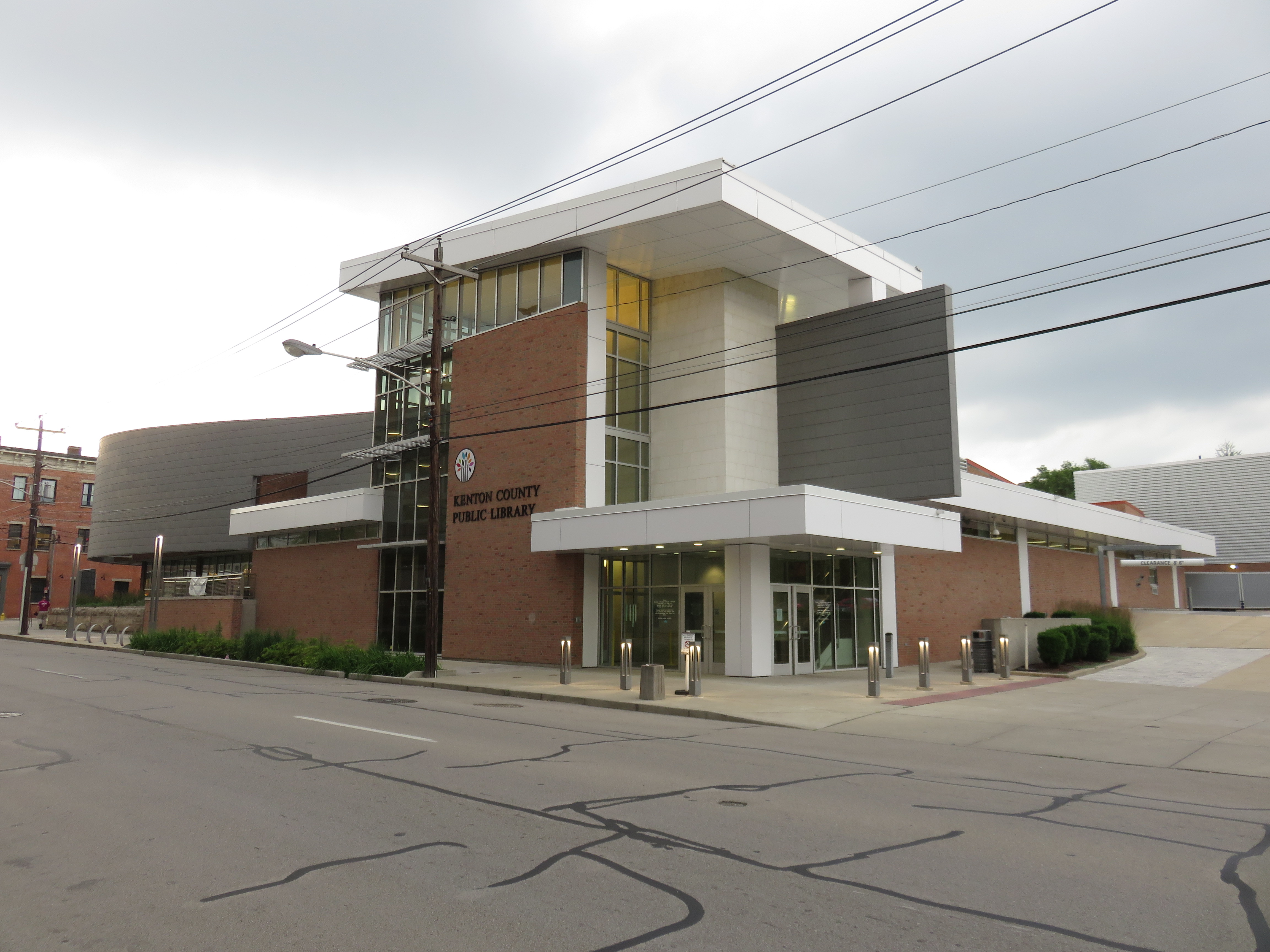 Kenton County Public Library in Covington, Kentucky in 2018